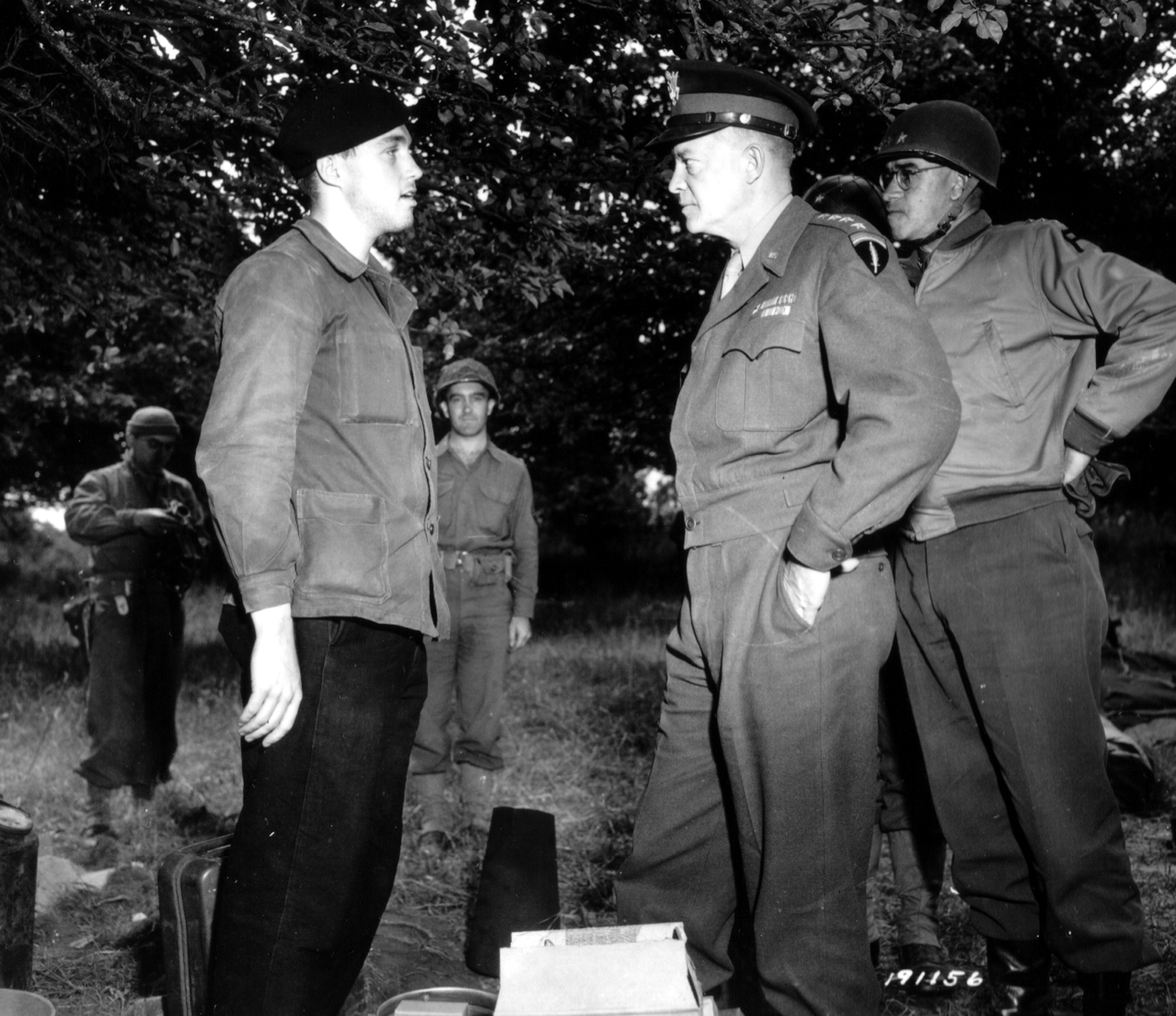 Generals Dwight D. Eisenhower and Omar Bradley talk with a young member of the French resistance in the American sector during the liberation of Lower Normandy in the summer of 1944. ID: p013328